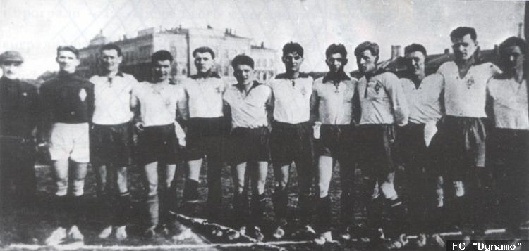 The squad of FC Dynamo Kyiv in 1929